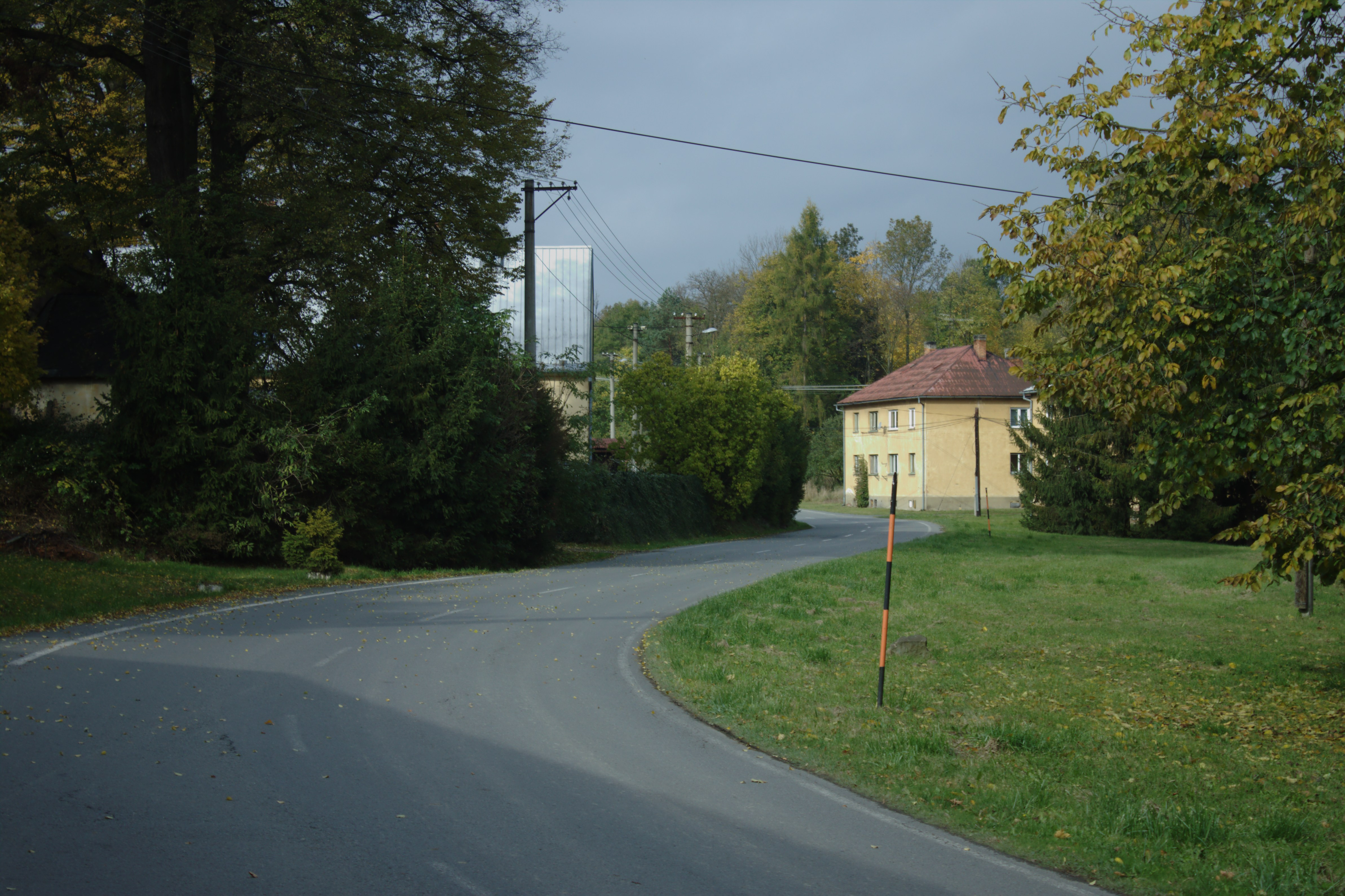 A residential building in Hořejší Kunčice, Moravian-Silesian Region, CZ